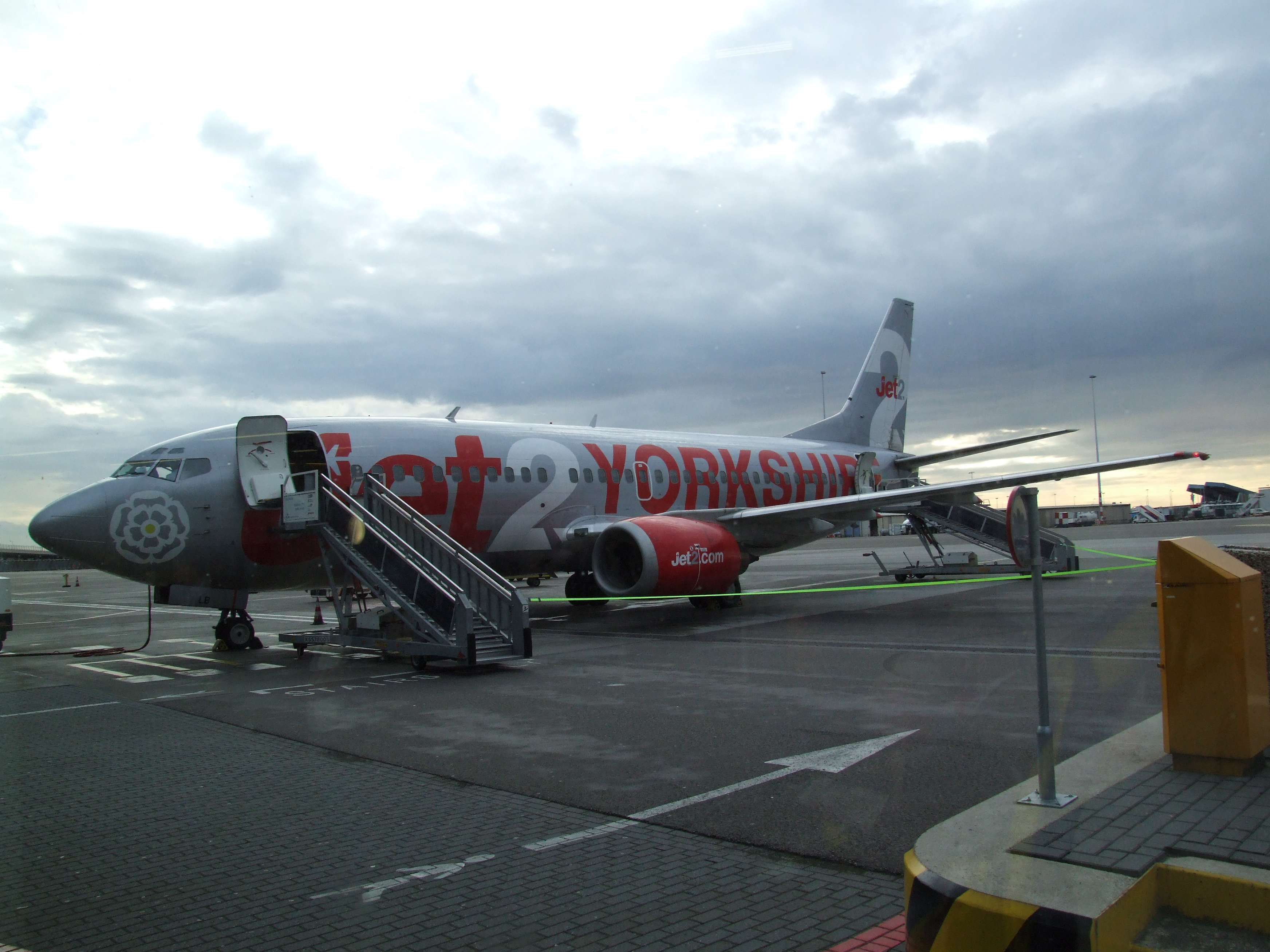 New Printing aeroplanes. Boeing 737-300, Amsterdam Airport (Schiphol).